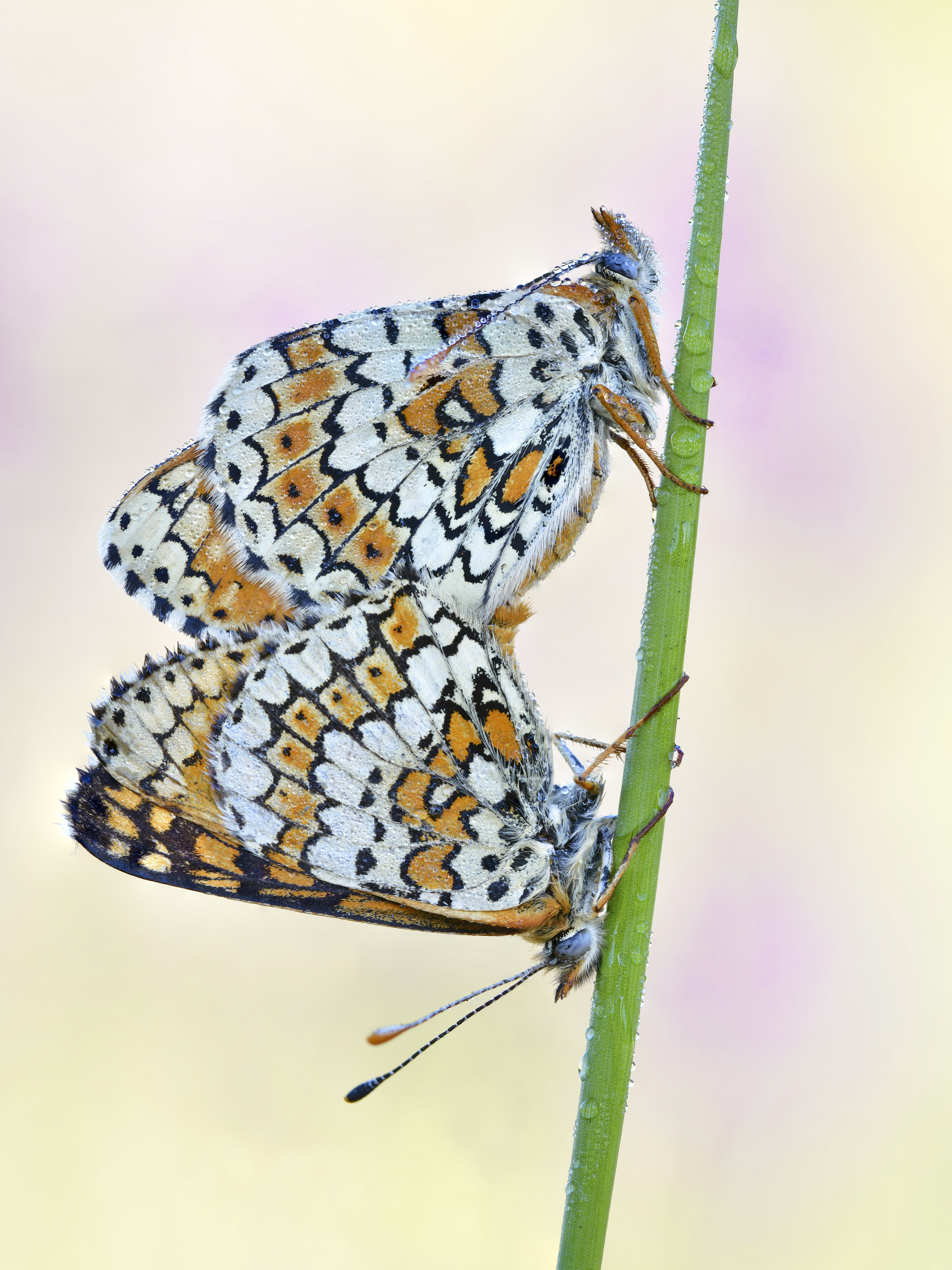 Mating Glanville fritillaries (Melitaea cinxia). Naturschutzgebiet Wittenberge-Rühstädter Elbniederung, Germany